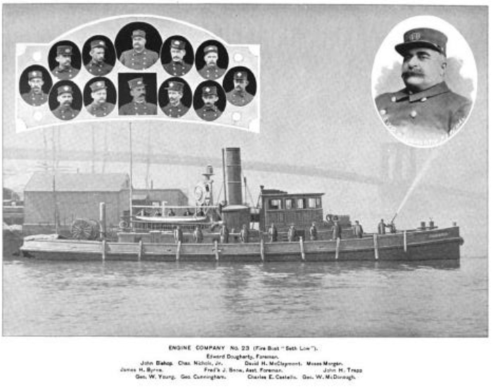 Fireboat Seth Low near the Brooklyn Bridge